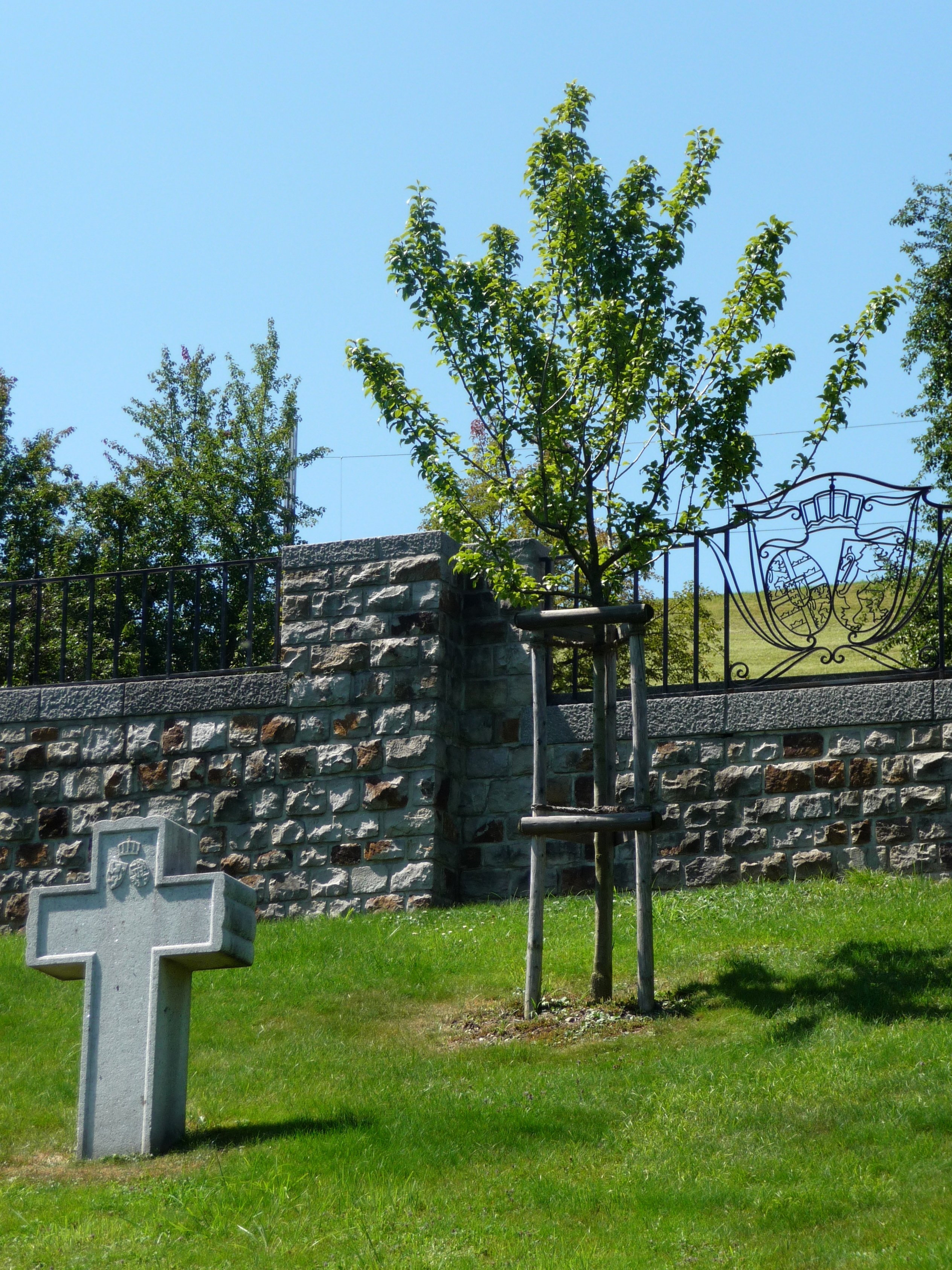 Memorial Cross and Pear Tree at Astrid Chapel in Küssnacht, Canton of Schwyz, Switzerland